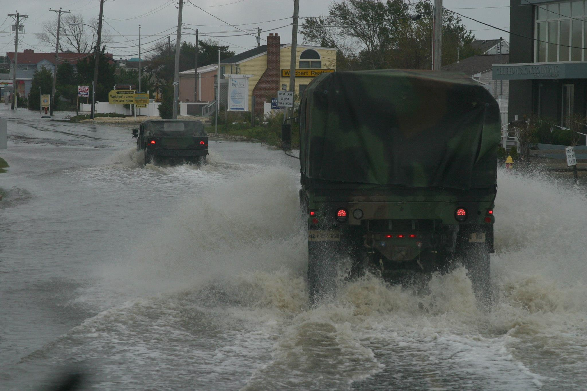 Vehicles from the NJ National Guard's E Co., 250th Brigade Support Battalion move through the streets of Long Beach Island on their way to assist stranded residents. The soldiers, part of Task Force North, were worked side by side with the Long Beach Police Department to help rescue stranded homeowners and help re-locate them to shelters throughout Ocean County.